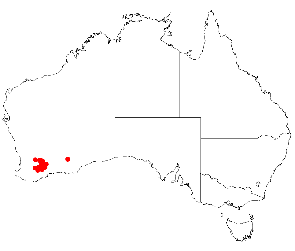 AAcacia acanthaster Occurrence data from Australasia Virtual Herbarium downloaded from on 8 December 2018